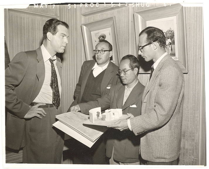 Eddie Imazu (second from right) discusses set designs with Fred McMurray (far left) and others.